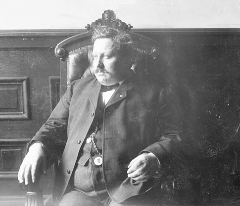 Photograph of Cornelius Shea, president, International Brotherhood of Teamsters, in Chicago, Illinois